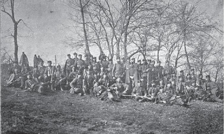 Cheta of Valandovo